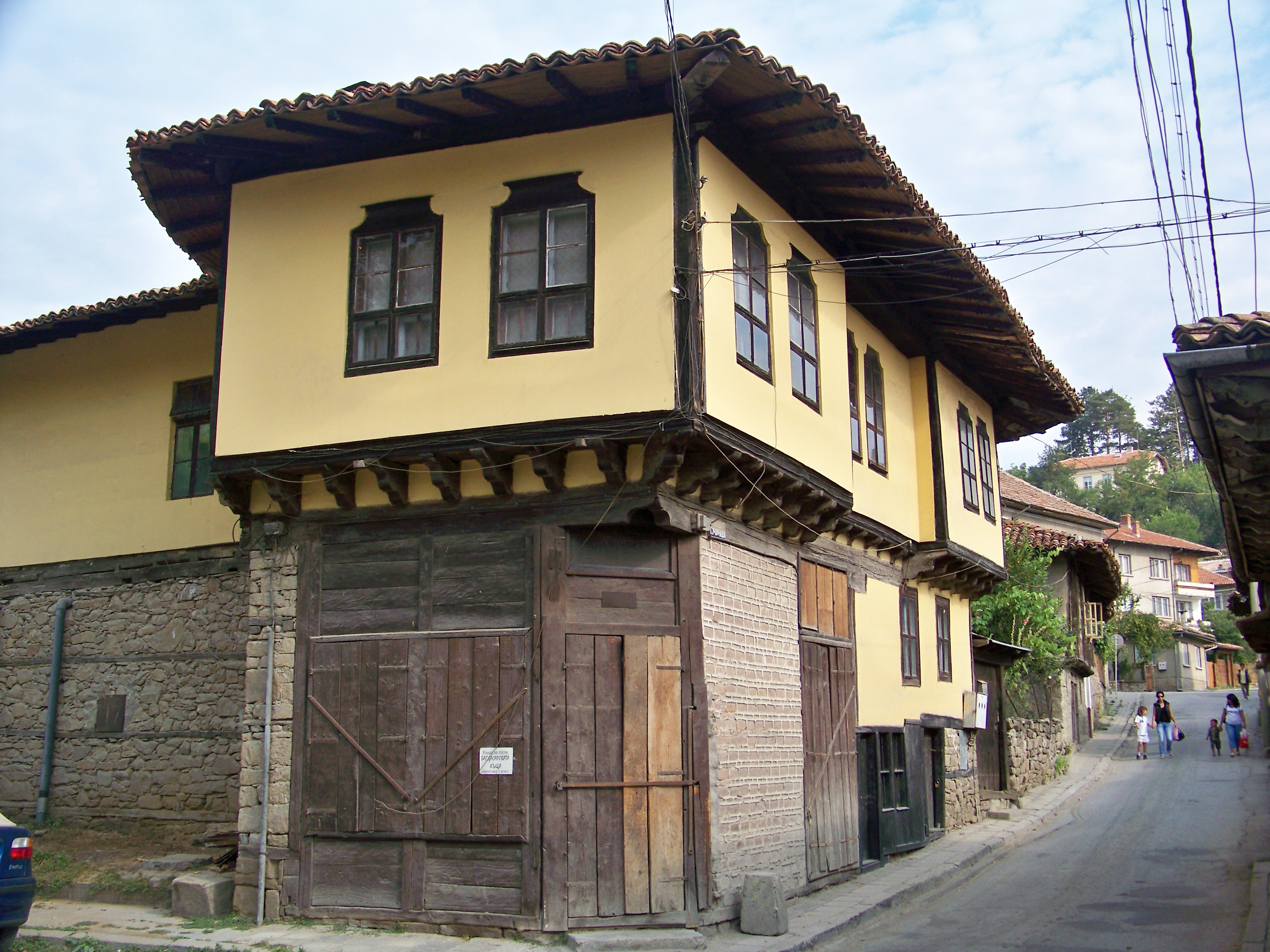 Elena (Bulgarian: Елена) is a Bulgarian town in the central Stara Planina mountains